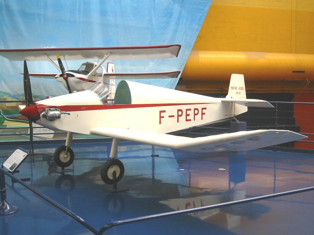 Bébé Jodel N°01